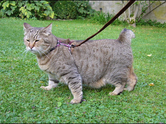 the doglike personality of the pixie-bob